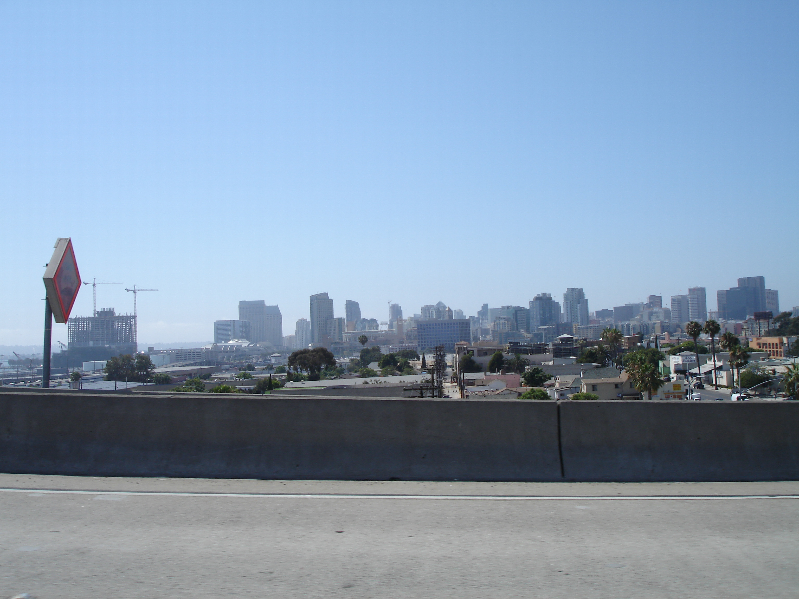 Part of San Diego Skyline in National City